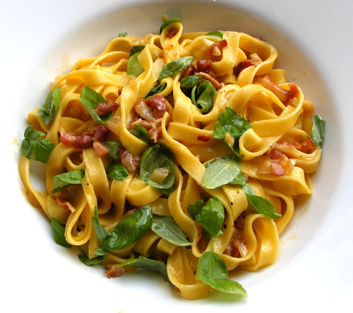 Never made this before. But watching all these cookingshows on tv makes you curious. And when you're too lazy to go to the shops and you have to clear your fridge anyway, this is what I came up with. Together with a simple salad with lots of quail-eggs that also needed finishing. :) Panfry some smokey bacon, when golden brown add some chopped garlic and a splash of white wine. In the meanwhile boil the pasta to your liking. At the end, take out a cup of water. Drain the pasta, add to the frying pan with bacon and mix. Add 3 egg yolks that you've already mixed with some parmesan. Add some of the cooking liquid to make it smoother. Add parsley. Or if you don't have that basil. Add some more parmesan to your liking.